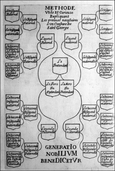 Lineages to be a Confrere of Saint-Georges